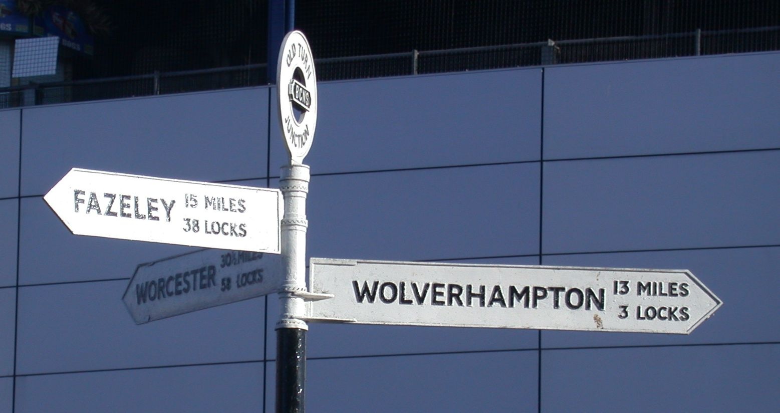 Signpost, Birmingham Canal Navigations' Old Turn Junction, Birmingham, England.